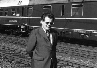 Cropped image of Günter Guillaume in Niedersachsen.